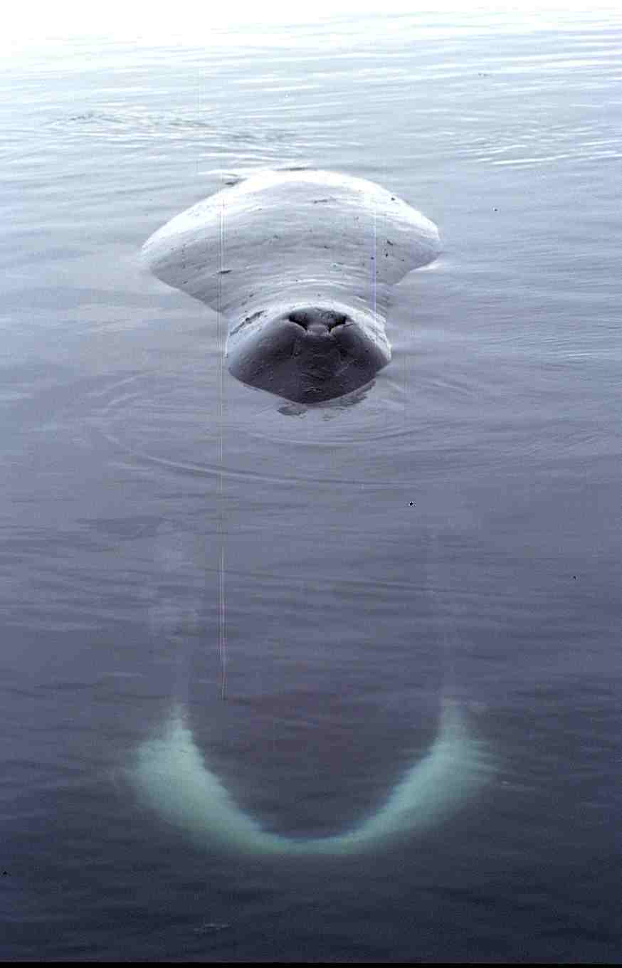 Bowhead whale (Balaena mysticetus) II, Foxe Basin (Nunavut, Canada)